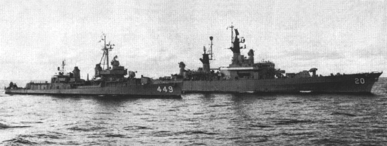 The U.S. Navy destroyer USS Nicholas (DD-449) steams alongside the guided missile cruiser USS Richmond K. Truner (DLG-20) in the South China Sea, circa 1966. Richmond K. Truner was (then) flagship of Destroyer Squadron 20 "Rampant Lions" of which Nicholas had been the first flagship.